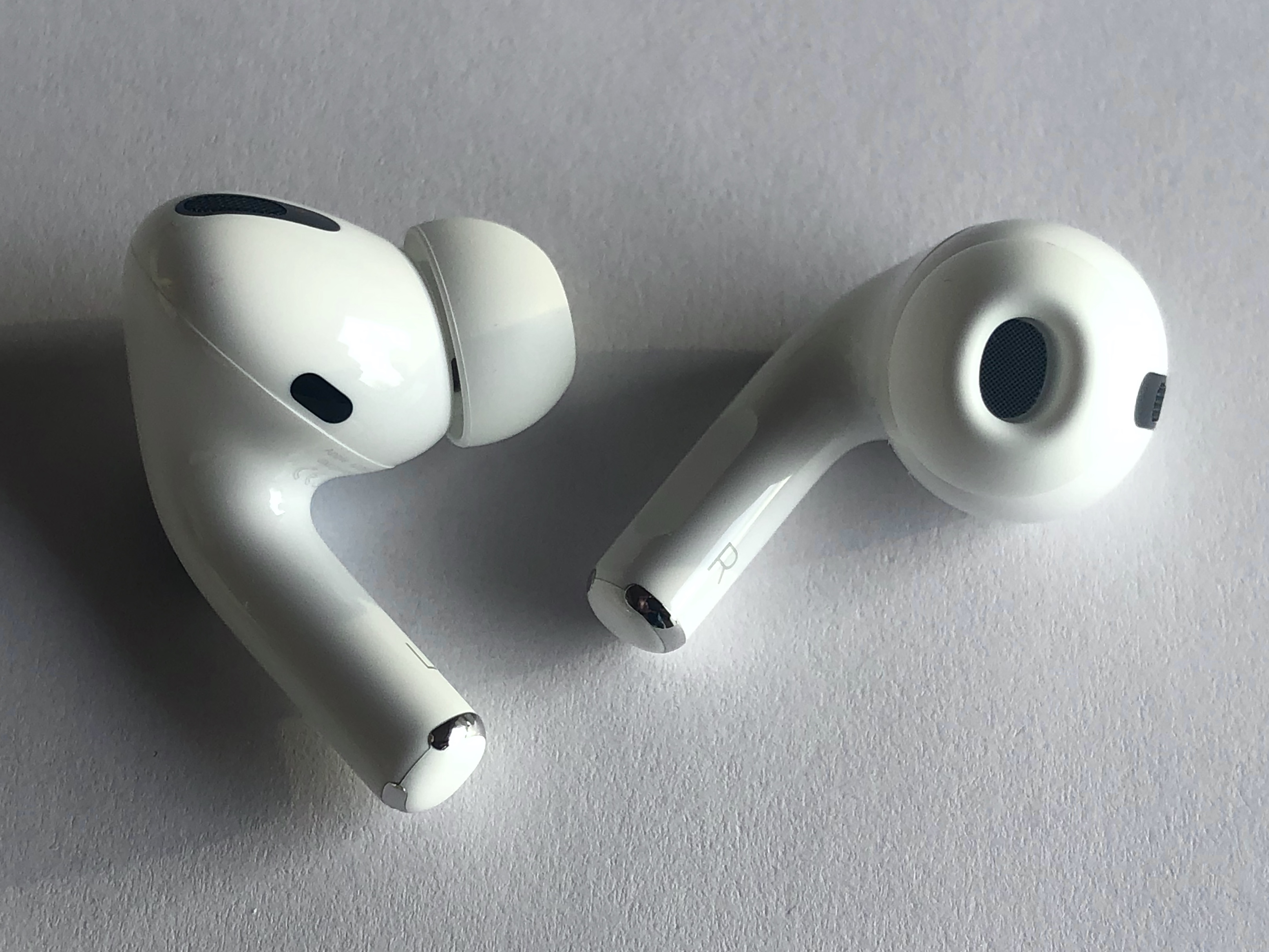 AirPods Pro